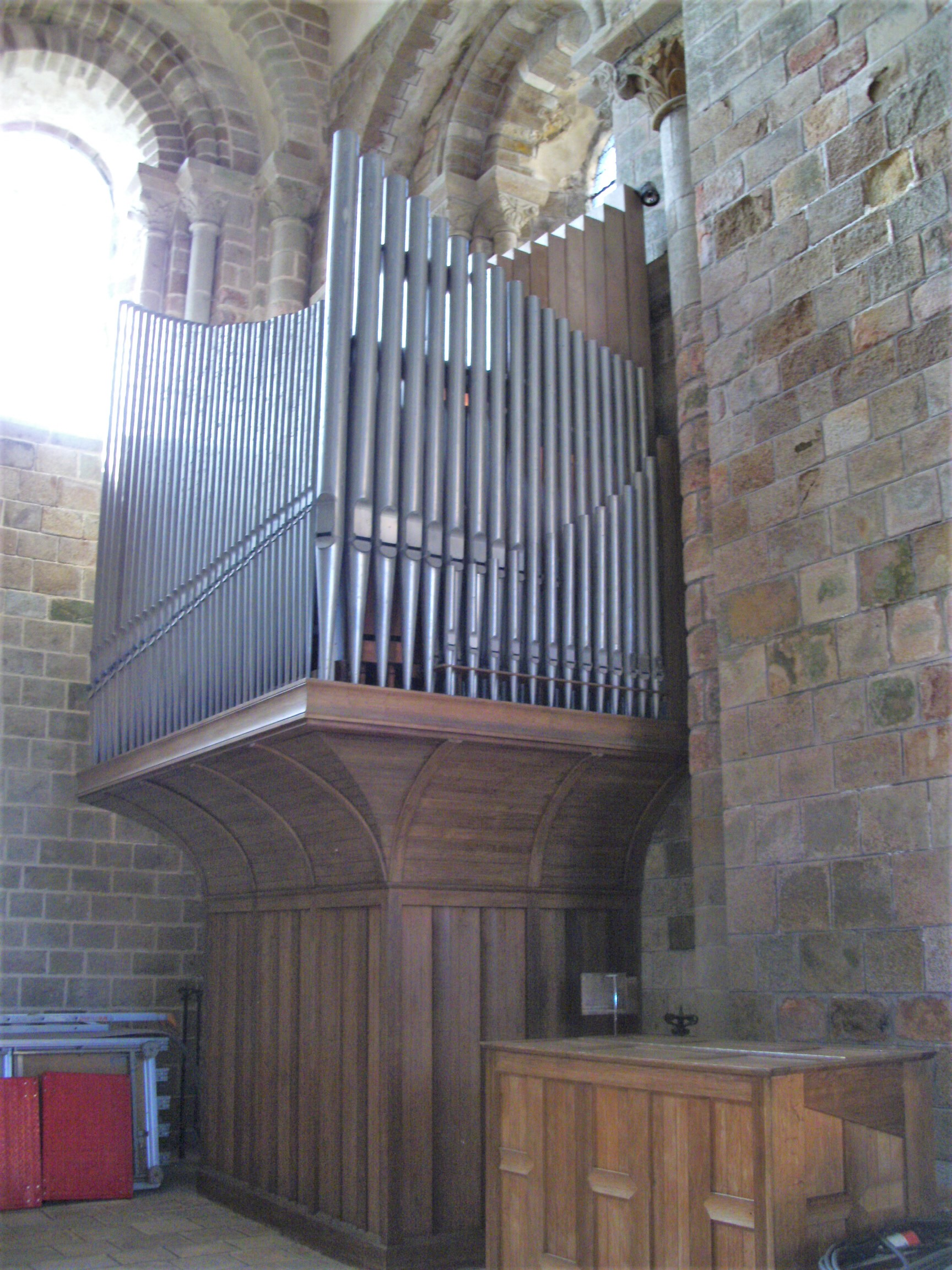 organ of mont saint michel abbey